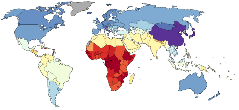 National IQ scores as estimated by Lynn and Vanhanen in their book IQ and Global Inequality which was widely disputed for poor methodology and accuracy